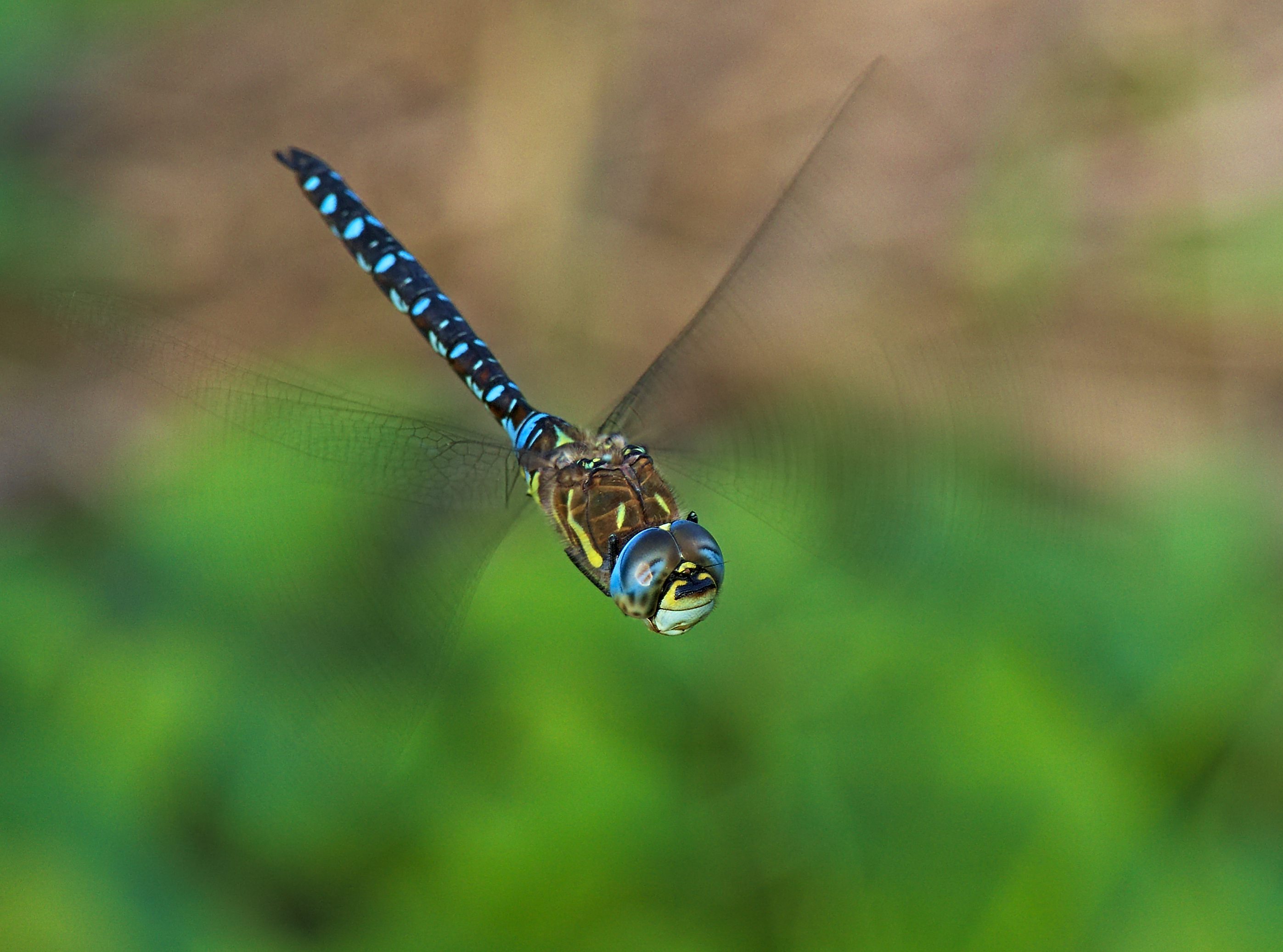 A male Migrant Hawker (Aeshna mixta) in flight. Photographed in Mannheim, Baden-Württemberg, Germany.